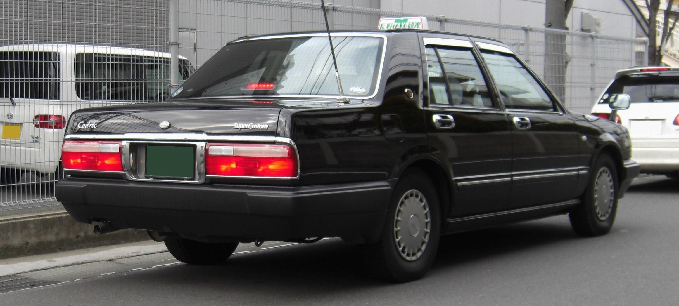 NISSAN Cedric Sedan (Nagano Kanko Taxi)